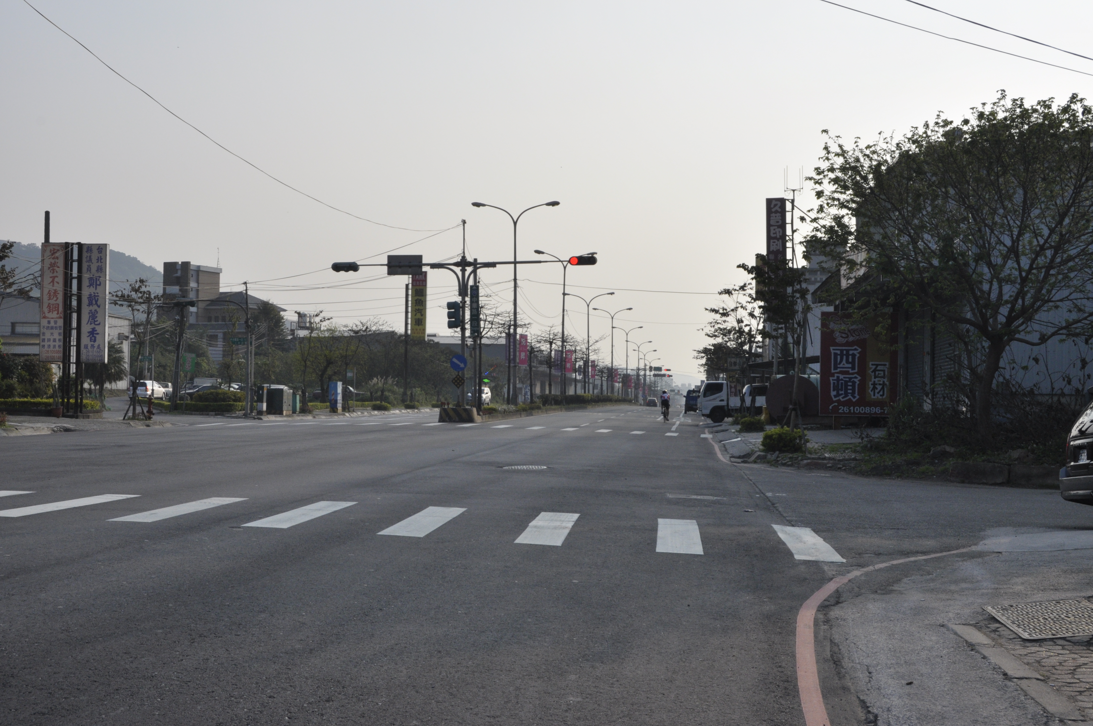 Provincial Highway 15 southbound in Bali.